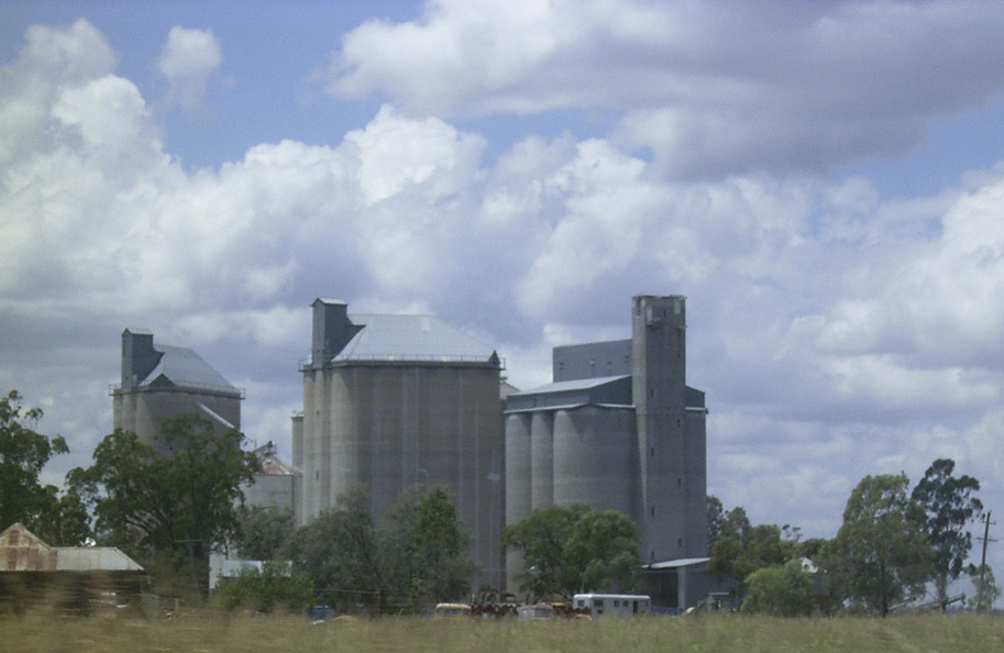 Grain silo in the Queensland town of Brookstead.